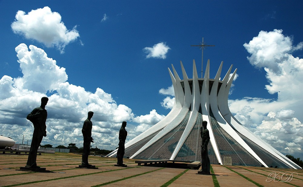 This is the very well known Cathedral of Brasília by Oscar Niemeyer, one of the most important names in international modern architecture. This is the symbol of Brasília.